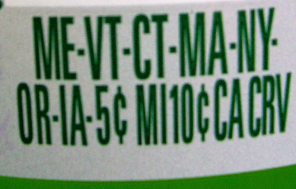 Photographed by Daniel Case 2006-01-25 on a bottle of Diet Mountain Dew.